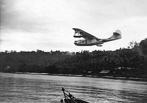 A Royal New Zealand Air Force Boeing PB2B-1 Catalina (PA-K) from 6 (Flying Boat) Squadron landing at Tol Anchorage, New Britain, on 5 August 1945. The PB2B-1 was a licence-built Consolidated PBY.